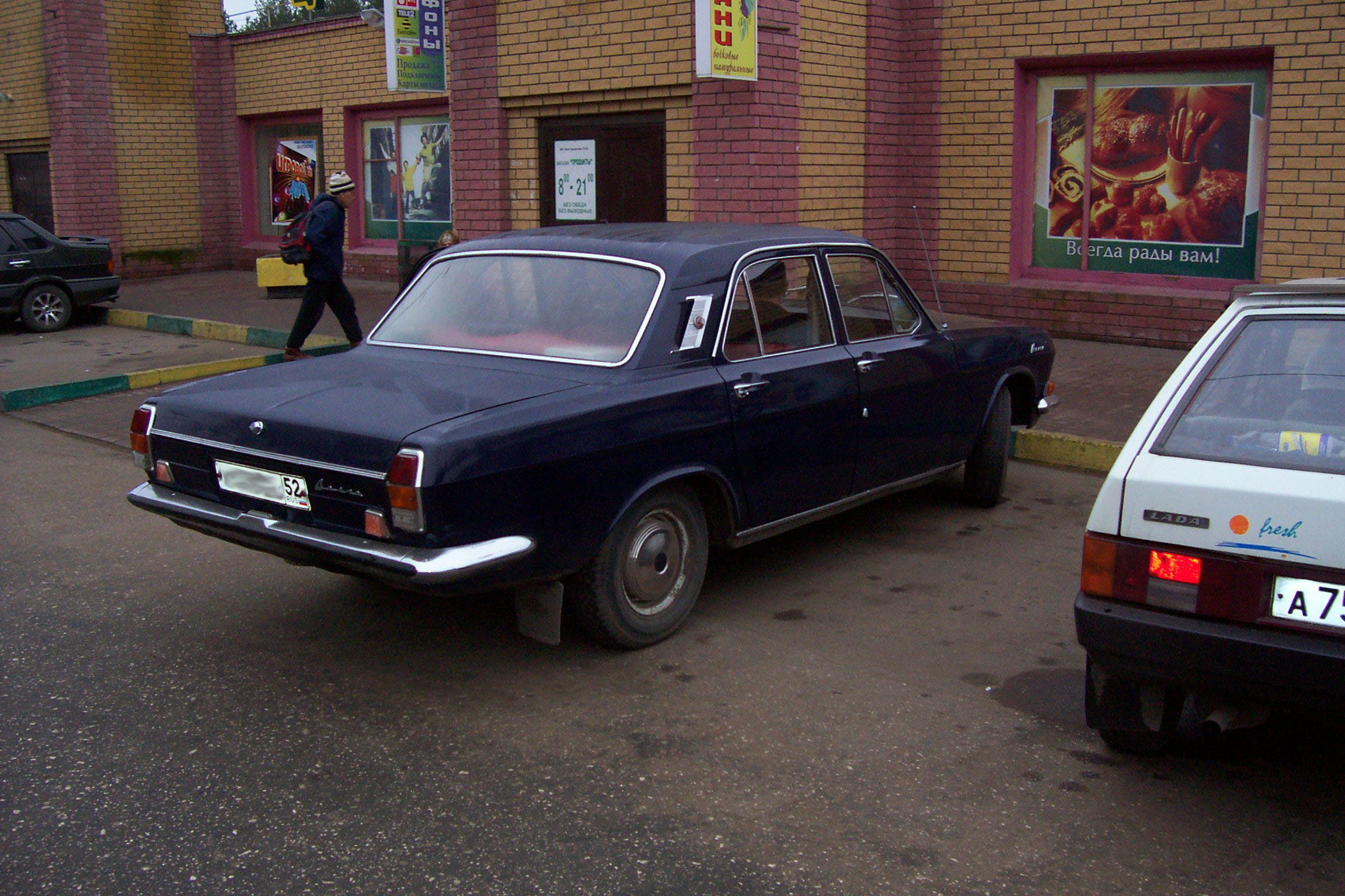 '74 M24 back part. Taken 27, October, 2007 by Stanislav Alexeyev aka DL24.